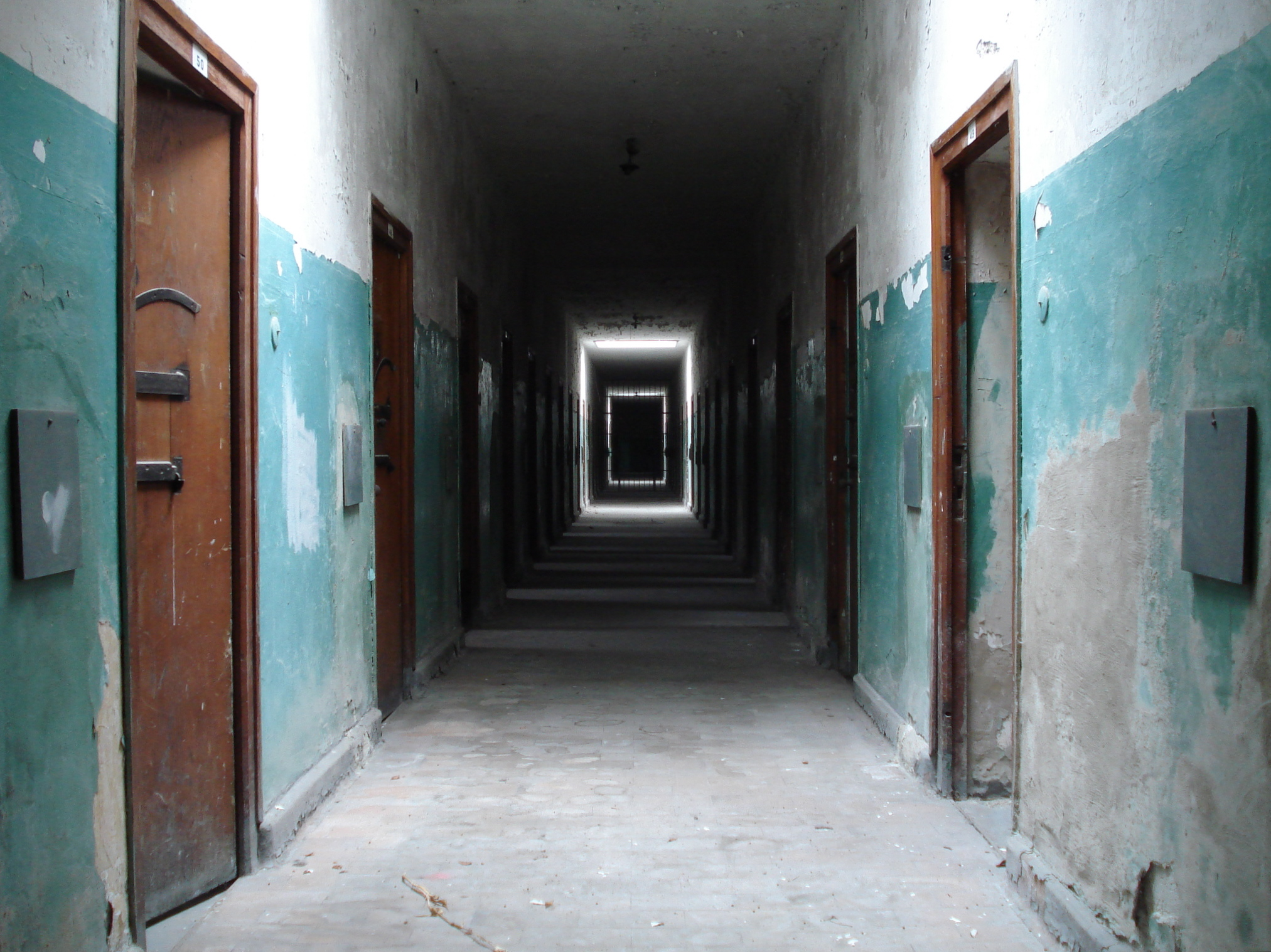 The halls of the prisoner's bunker in Dachau concentration camp